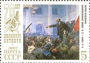 Stamp of the Soviet Union, 1987. 70th anniversary of the October Revolution in Russia. "Lenin Proclaims the Soviet Rule", painting by V. A. Serov. This is a later version of the painting (1962) that does not show Stalin behind Lenin, as seen on the stamp. CPA #5869.